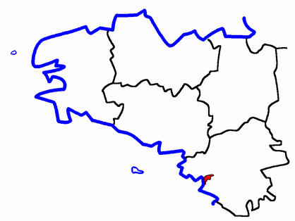 Description: Map for localisazion of cantons of Pays-de-Loire, region in France Source: made by Hervé Tigier in april 2005 from another large map (published in 1990)